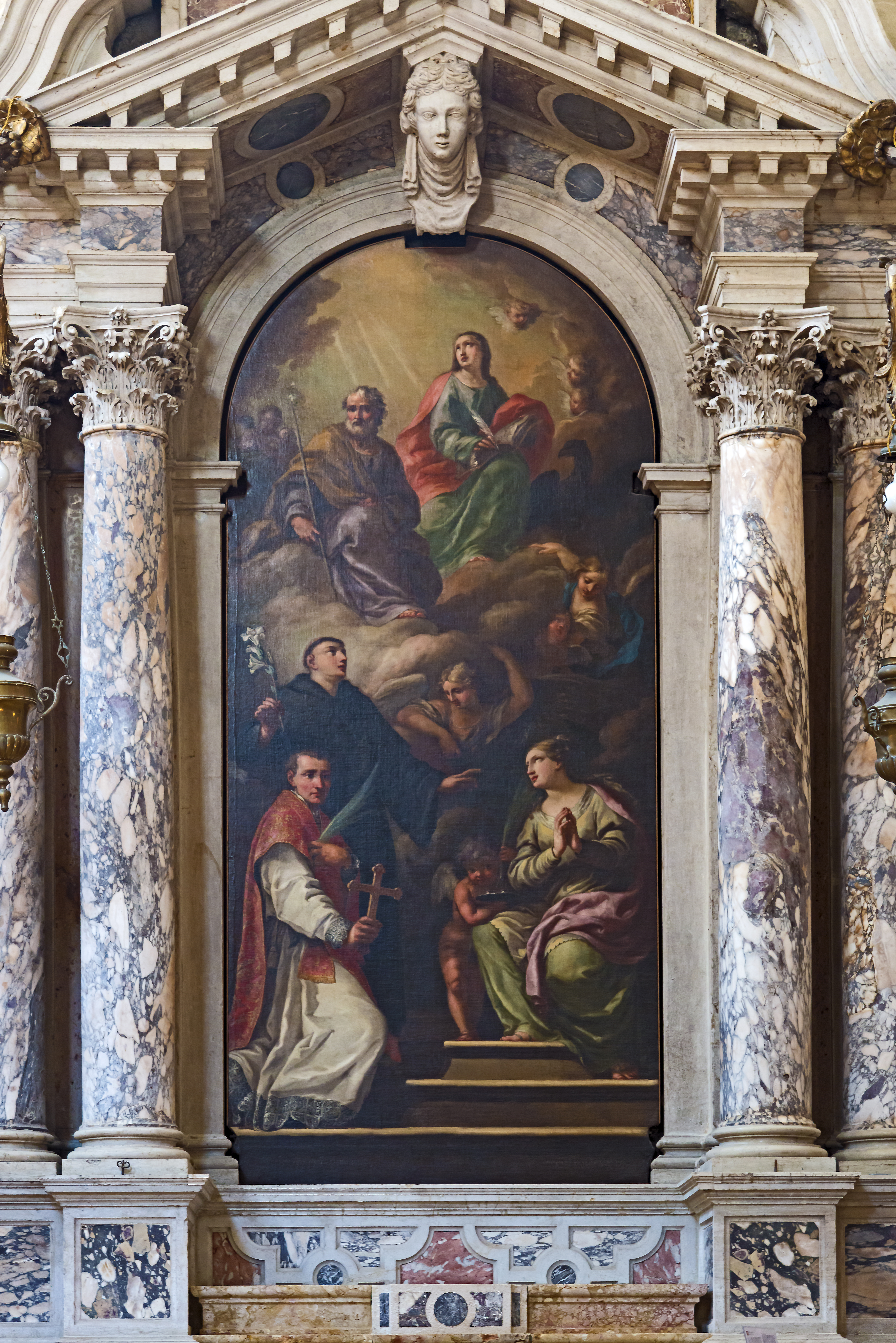 Church of San Lio in Venice Inside. Altarpiece - God and the saints - Mark the Evangelist, Anthony of Padua, Lucy of Syracuse, and St. Louis of Toulouse - Pietro Antonio Novelli 1779